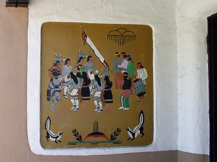 Indian Dance Wall Painting, La Fonda Hotel